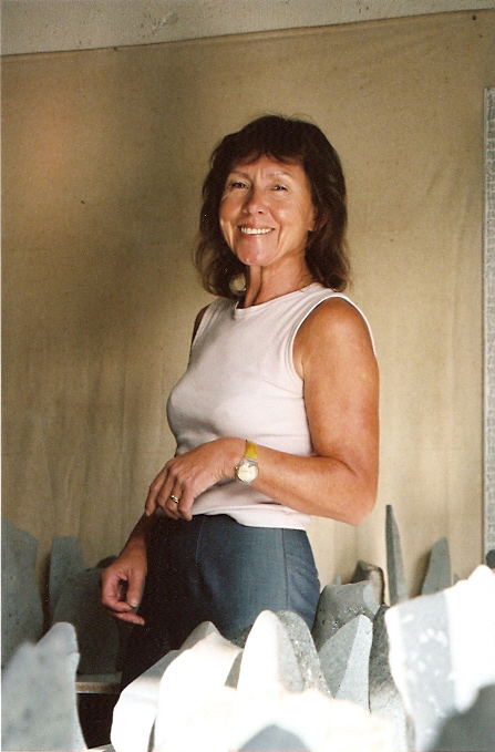 Photo of Hildegard Hahn